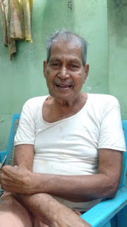 அழகிரி விசுவநாதன் Alagiri visvanathan